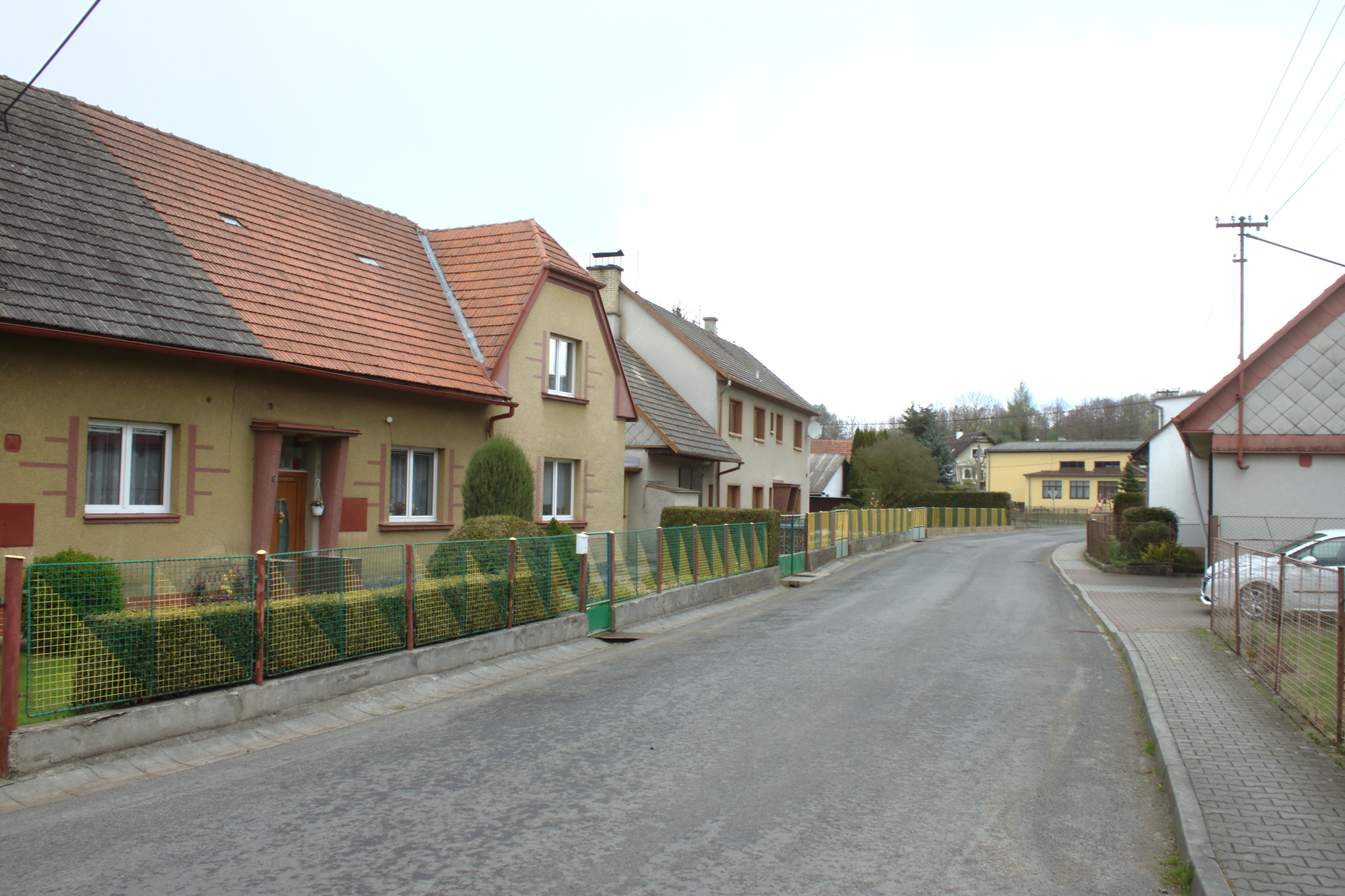 Buildings in the village of Újezd u Plánice, Plzeň Region, CZ